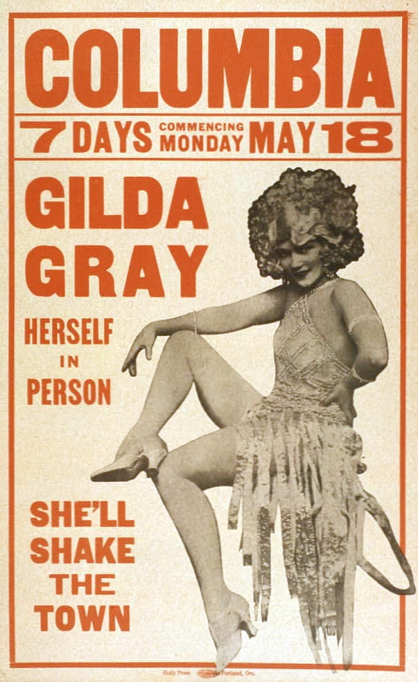 Polish-born American dancer and actress Gilda Gray (1901-1959). Poster showing "Gilda Gray herself in person. She'll shake the town. Columbia, 7 days commencing Monday, May 18."